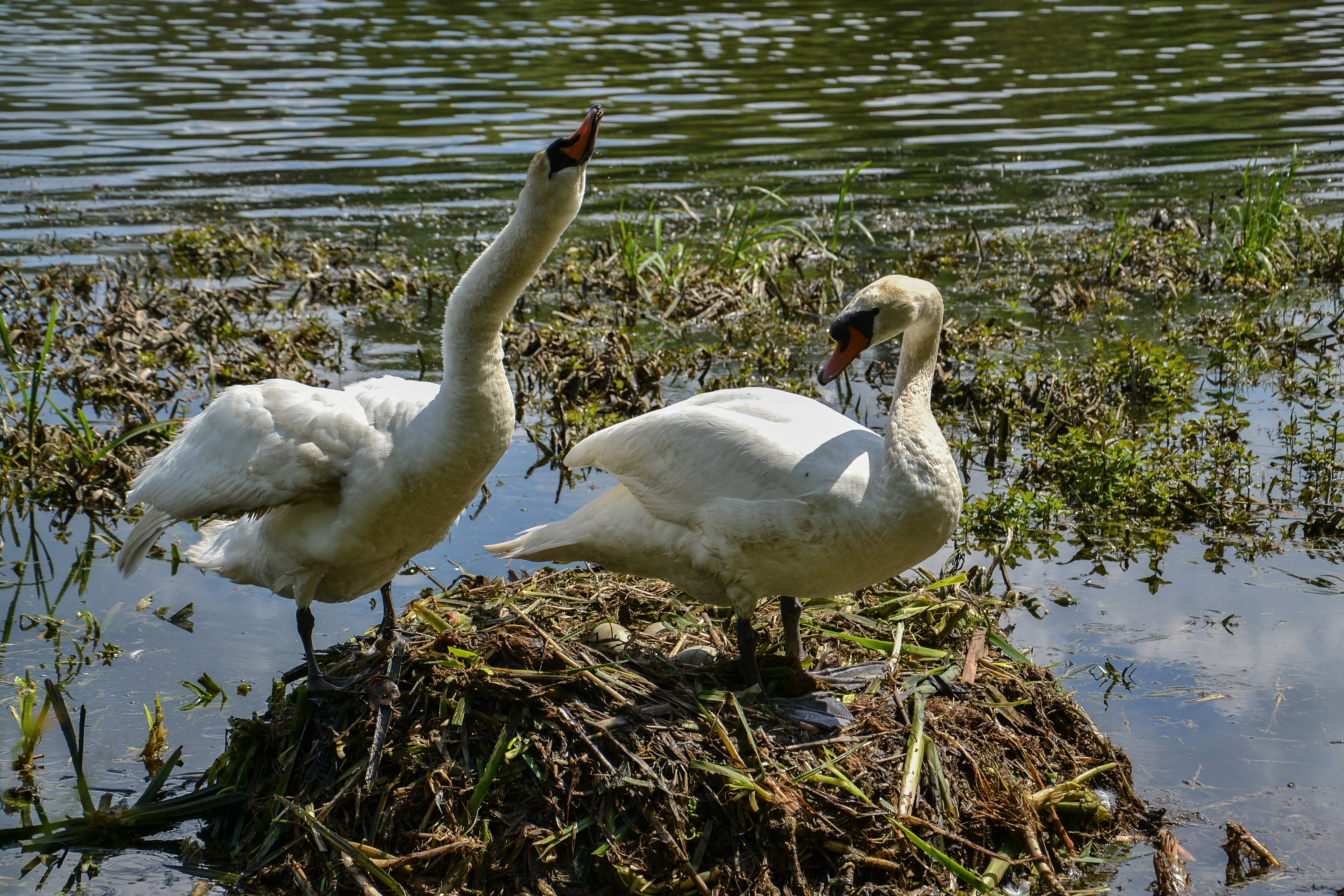 Cygnus olor, Gzel reservoir, Rybnik, Upper Silesia